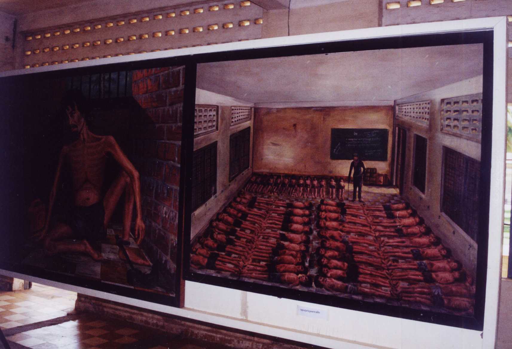 Interior of Tuol Sleng Memorial to the victims of Khmer Rouge in Phnom Penh, Cambodia